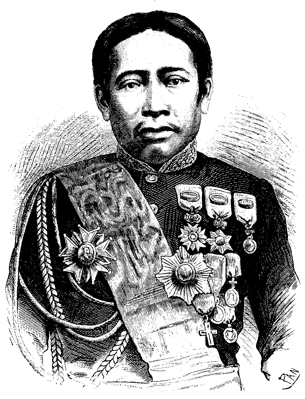 King Norodom First (here is written Nerodom) from Cambodia in November 1903 (dead in 1904) in newspaper drawing of PAN